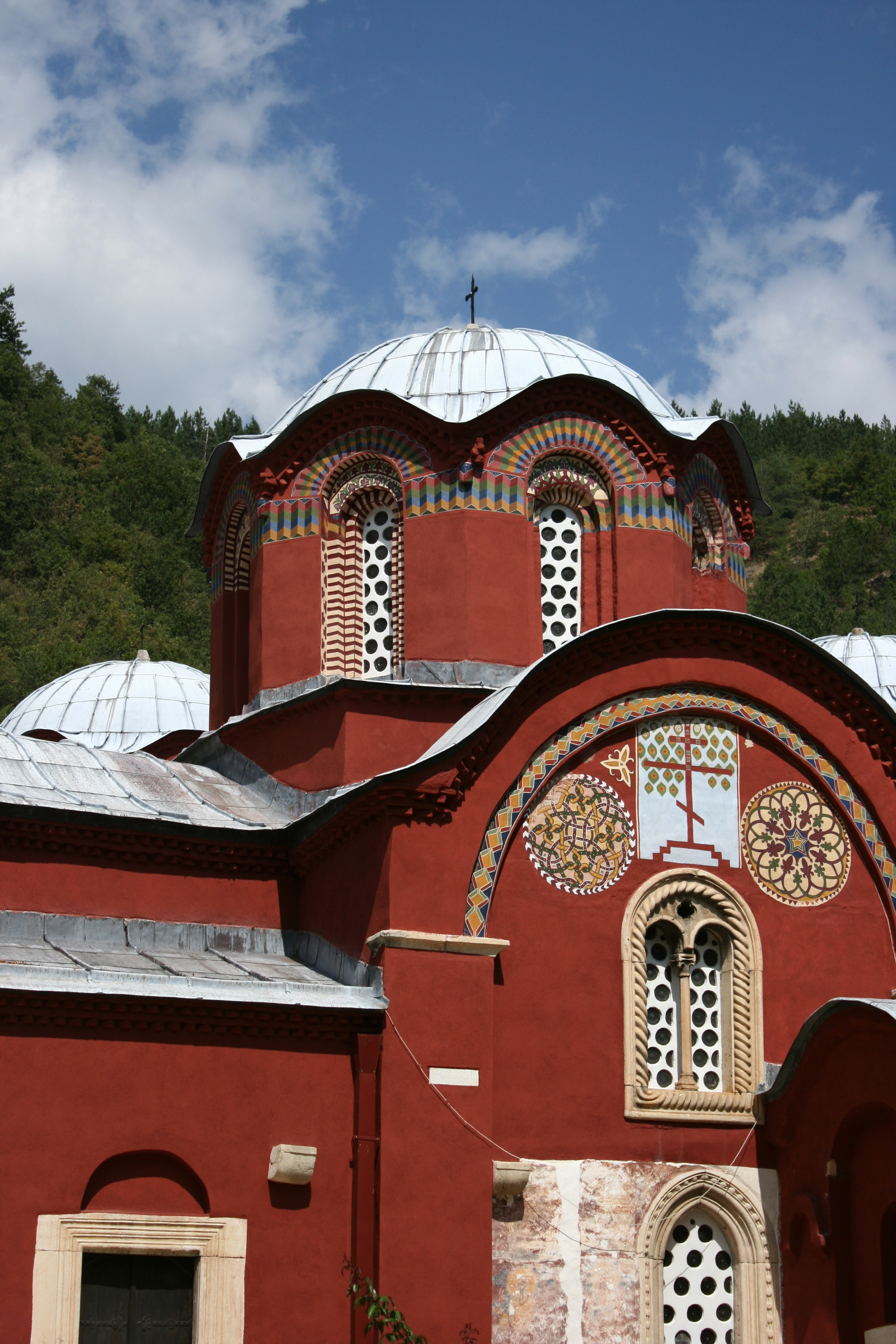 Church complex of the Patriarchate of Peć, Kosovo and Metohia